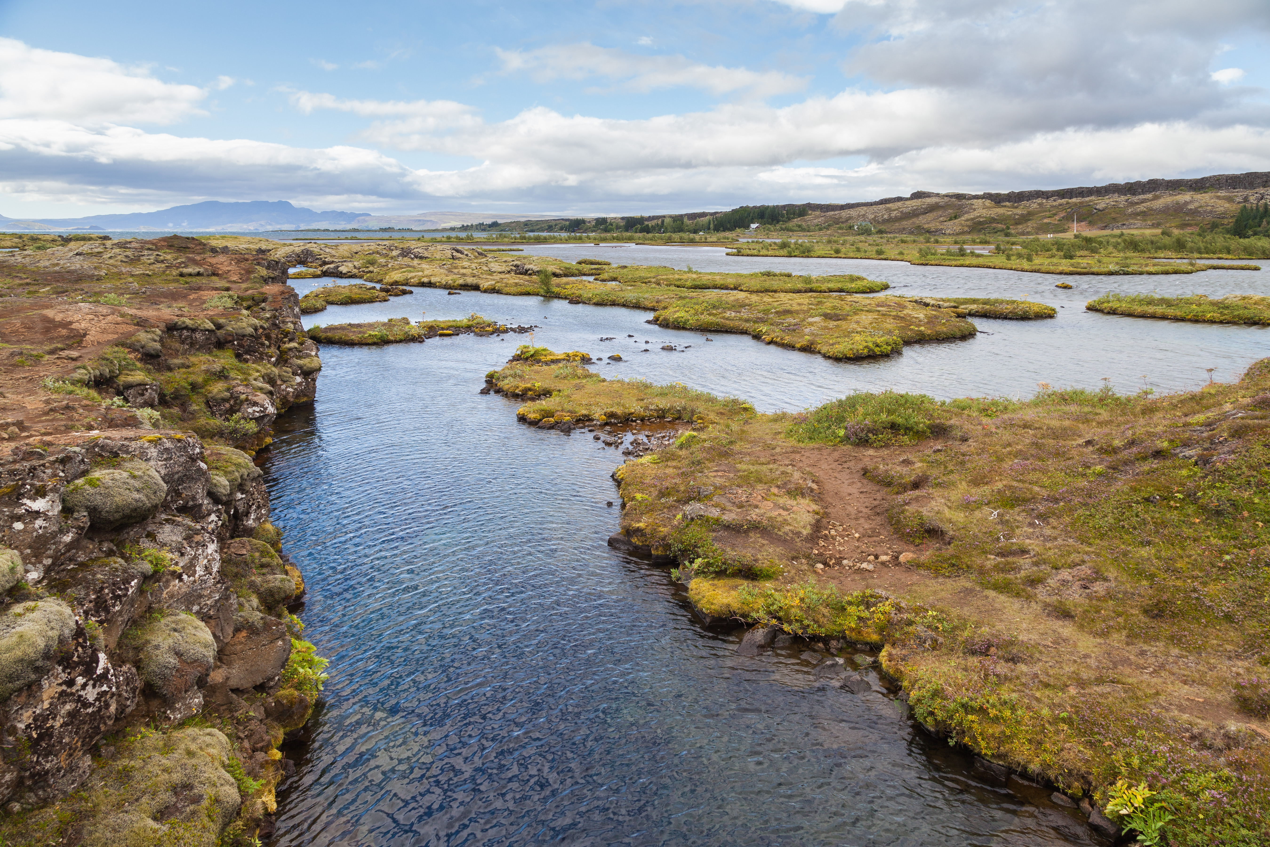 Silfra canyon, Þingvellir National Park, Suðurland, Iceland